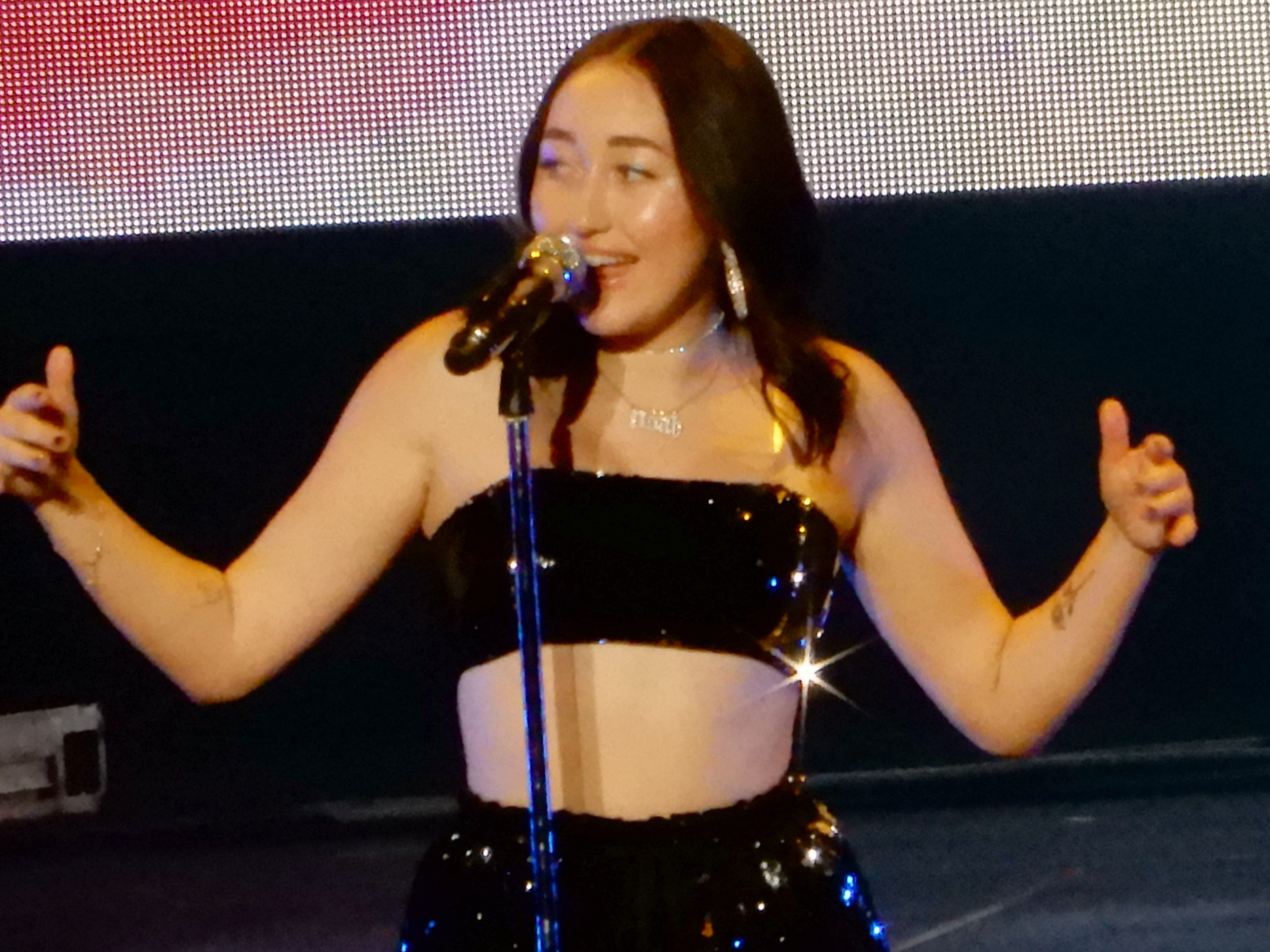 Noah Cyrus Opening for Katy Perry at Madison Square Garden